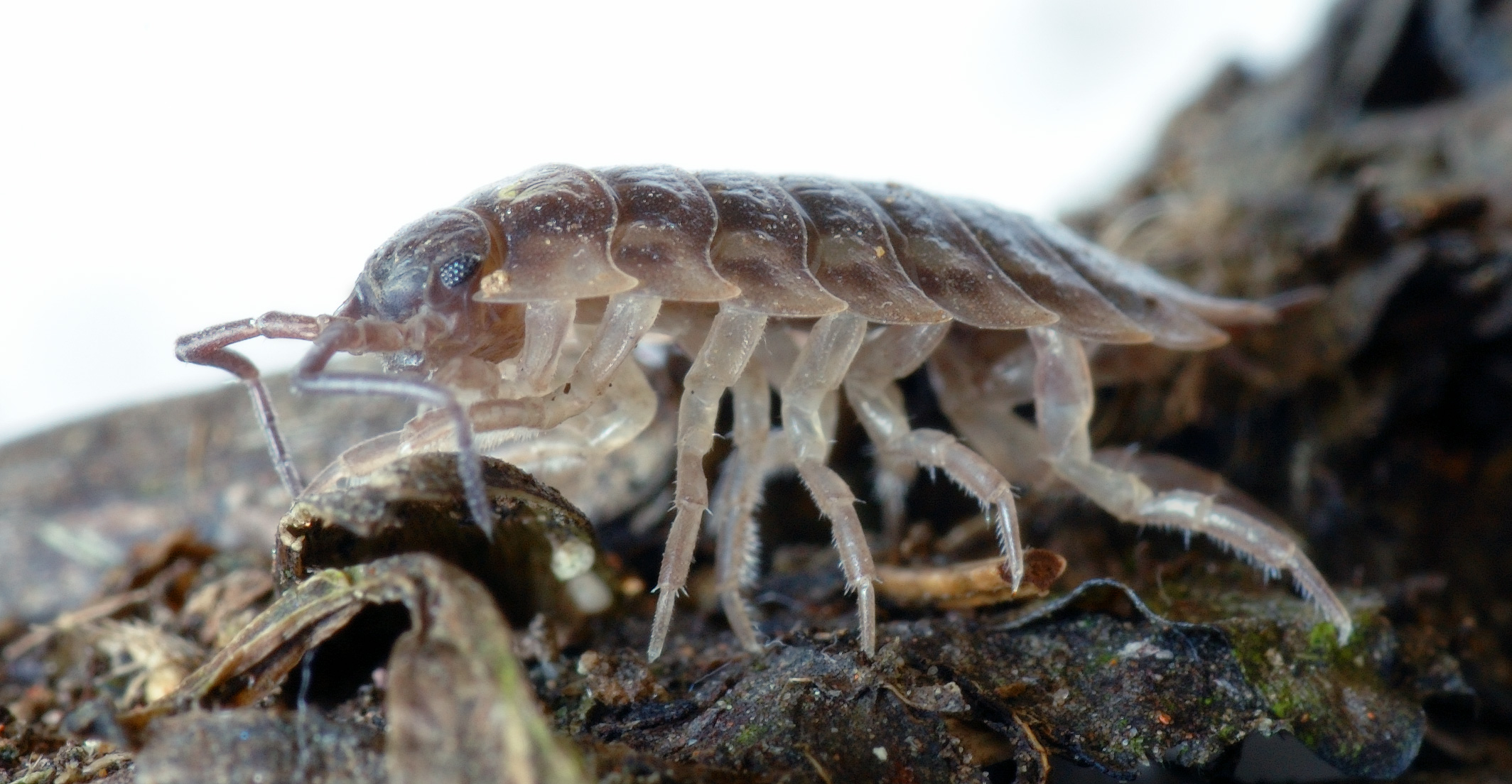 This image shows a 0.4 inch (10 mm) large male Common woodlouse (Oniscus asellus).